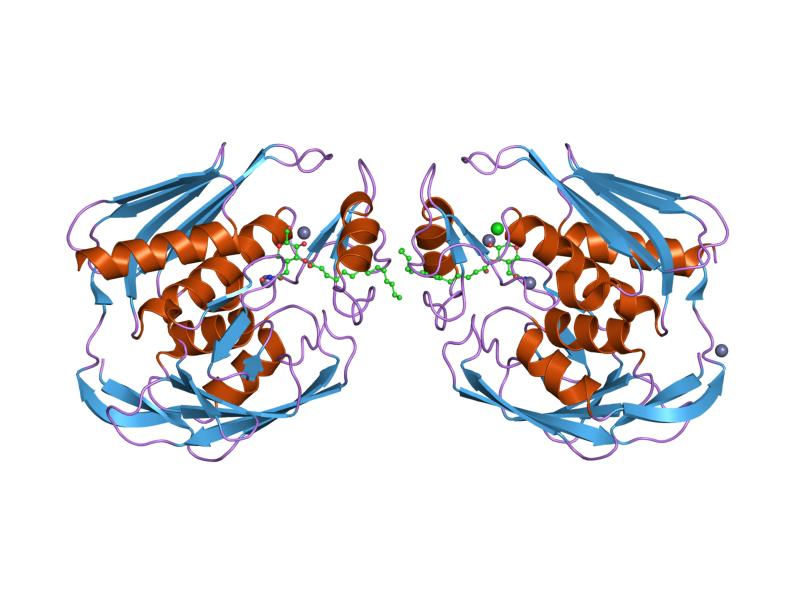 Cartoon representation of the molecular structure of protein registered with 2go4 code.